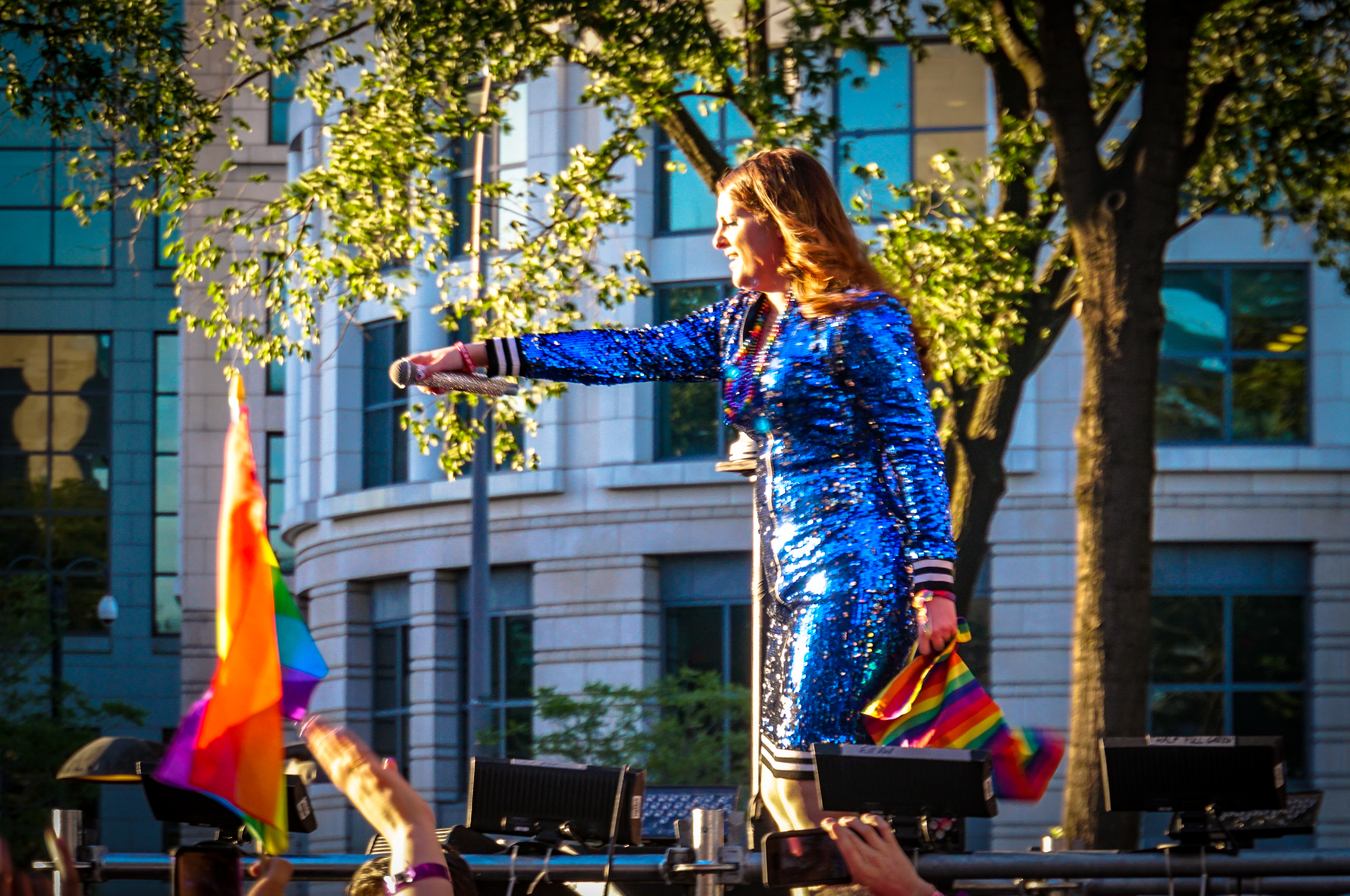 Meghan Trainor performs at Capital Pride, Washington, DC USA